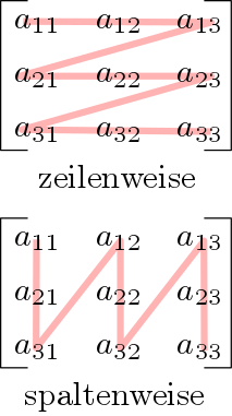 Shows row order and column order for matrix traversal, in German.